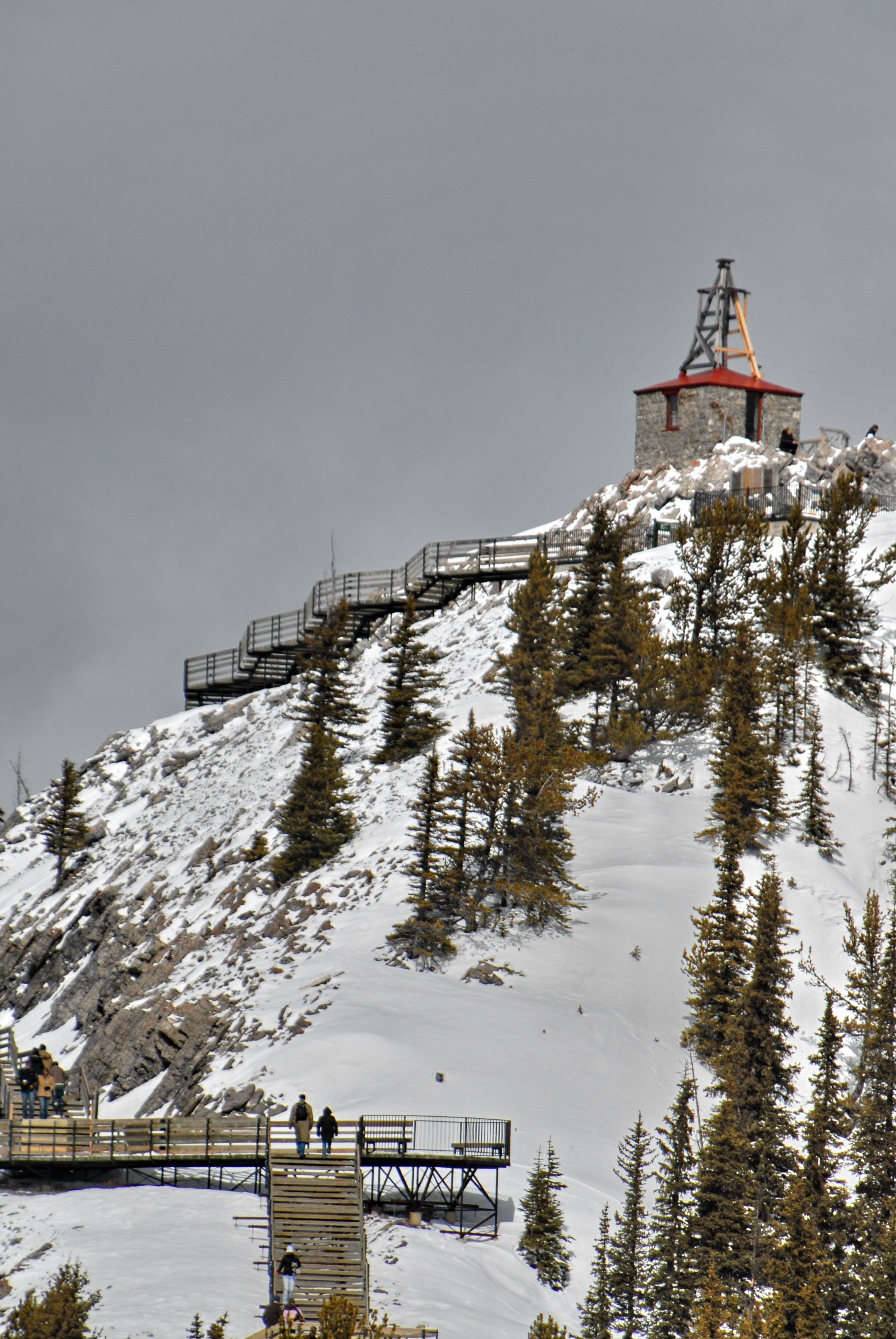 The top of Mt. Sulpher in Banff, Alberta. At the peak is a station that was part of a global cosmic ray observatory project beginning 40 years ago. (Changed title from Mt. Norquay to Sulphur Mountain.).